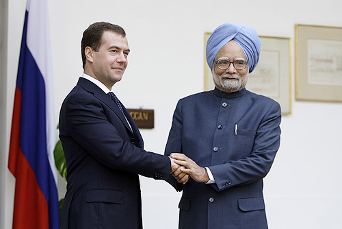 NEW DELHI. With Prime Minister of India Manmohan Singh.